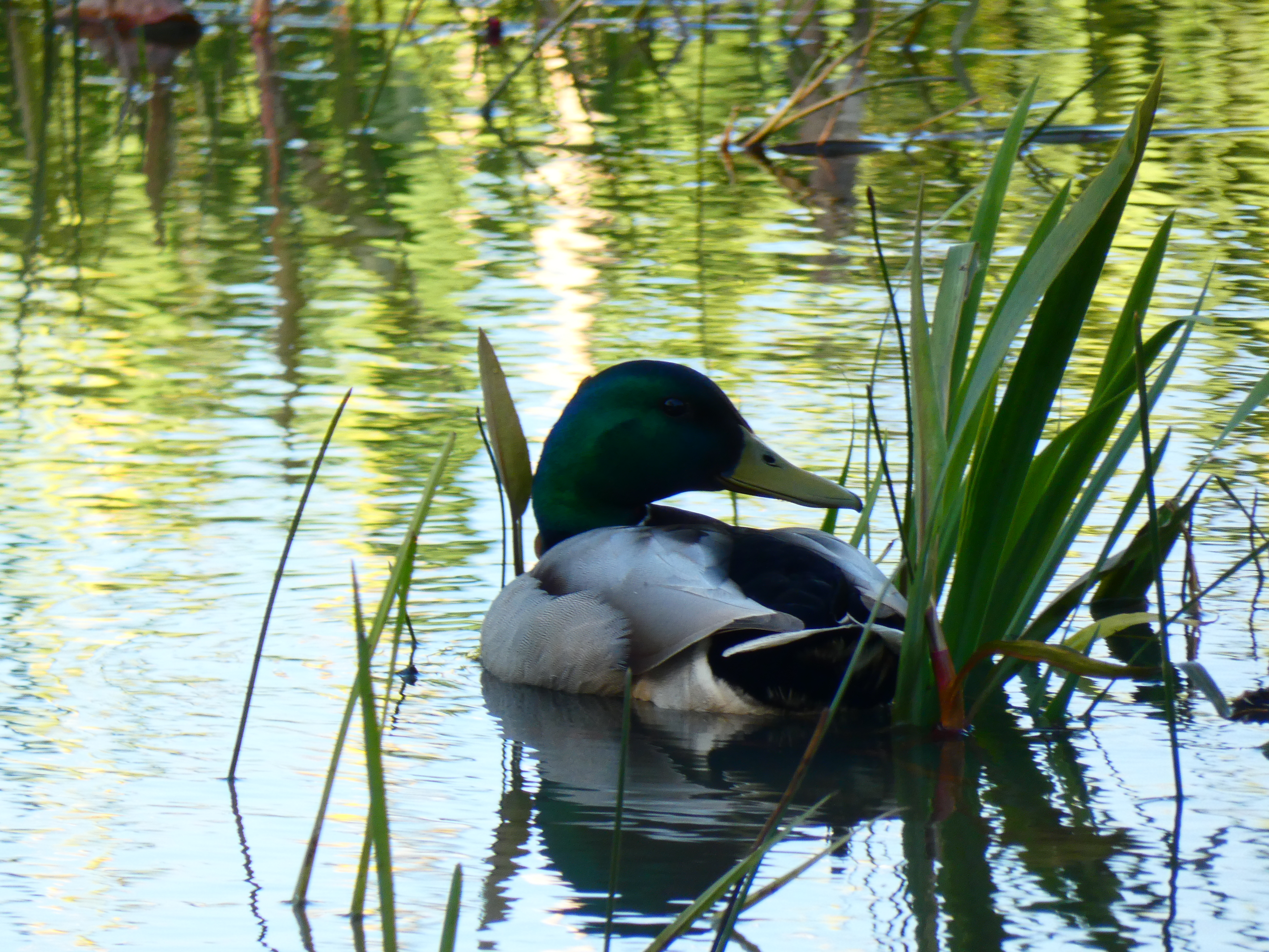 One of my favourite pictures of a Duck